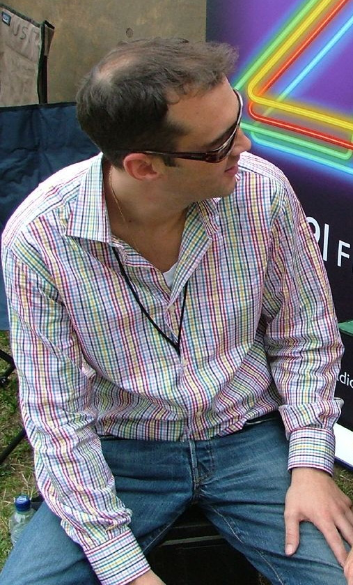 Johnny Vaughan and Chris Evans